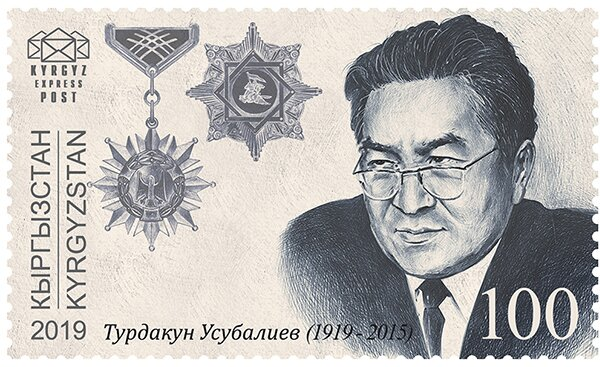 Centenary of Birth of Turdakun Usubaliev, Politician